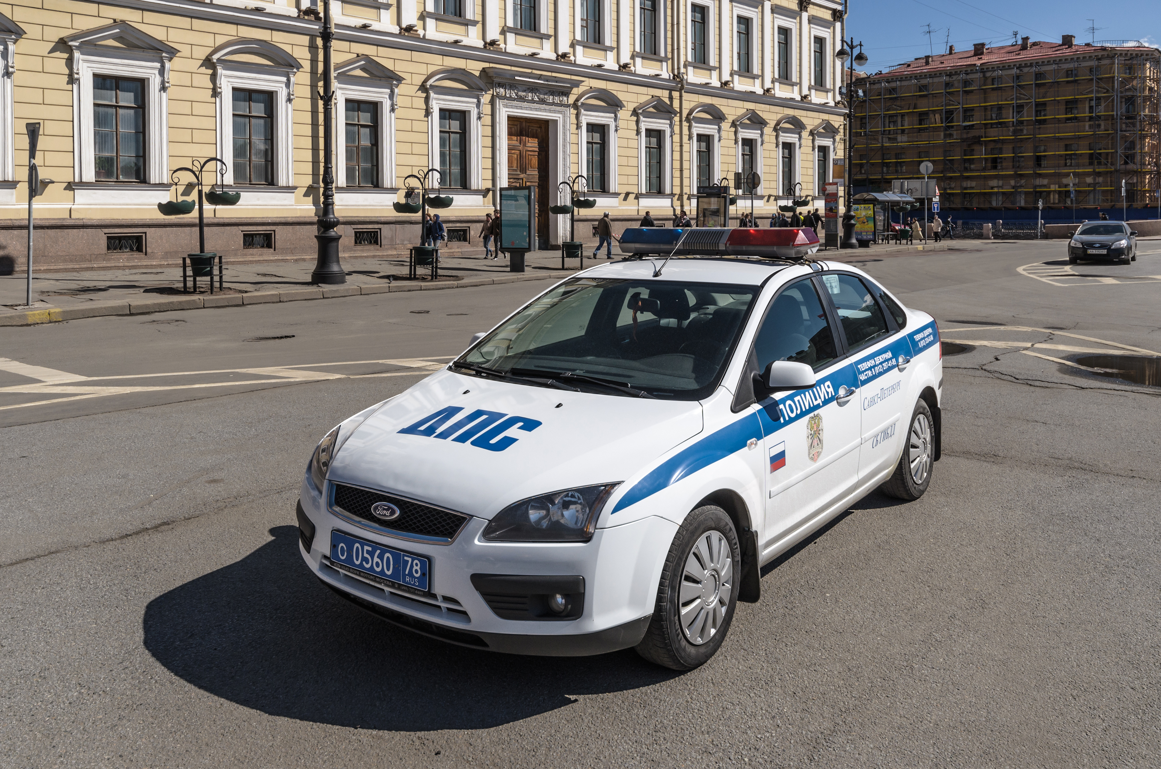 Police сar at Isaakievskaya square in Saint Petersburg